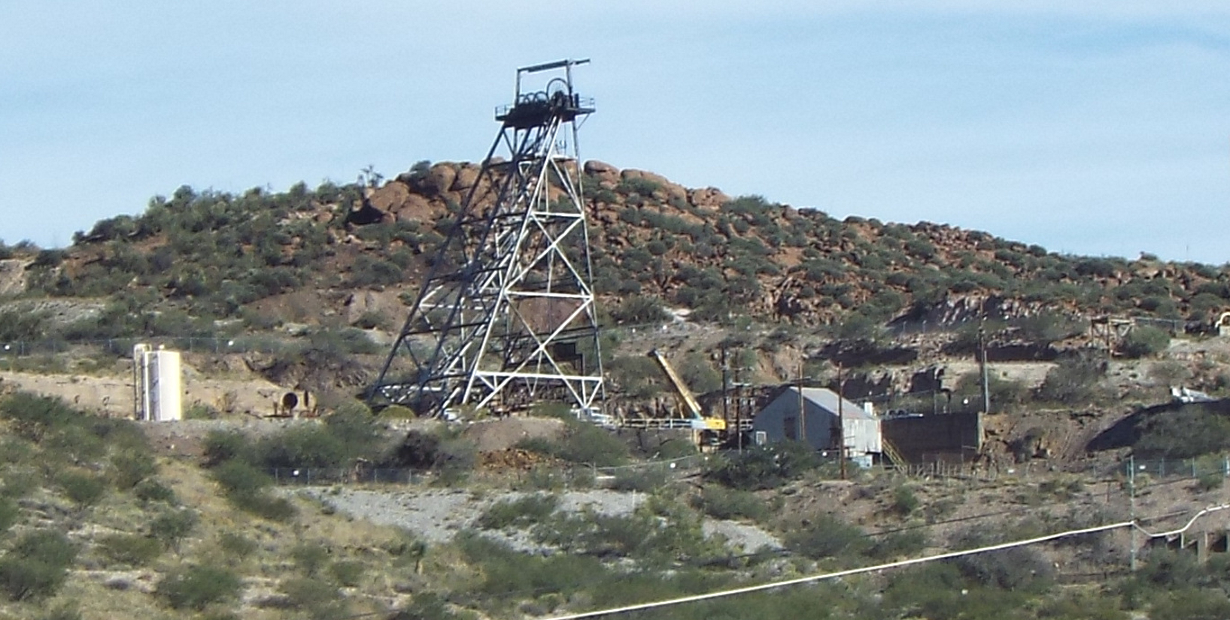 Globe-Smelter of the Old Dominian Copper Company-1906-1